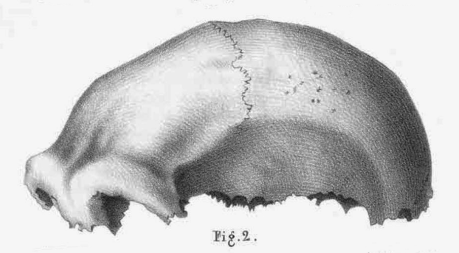 Neandertal 1, Holotype specimen of Homo neanderthalensis: Calvarium